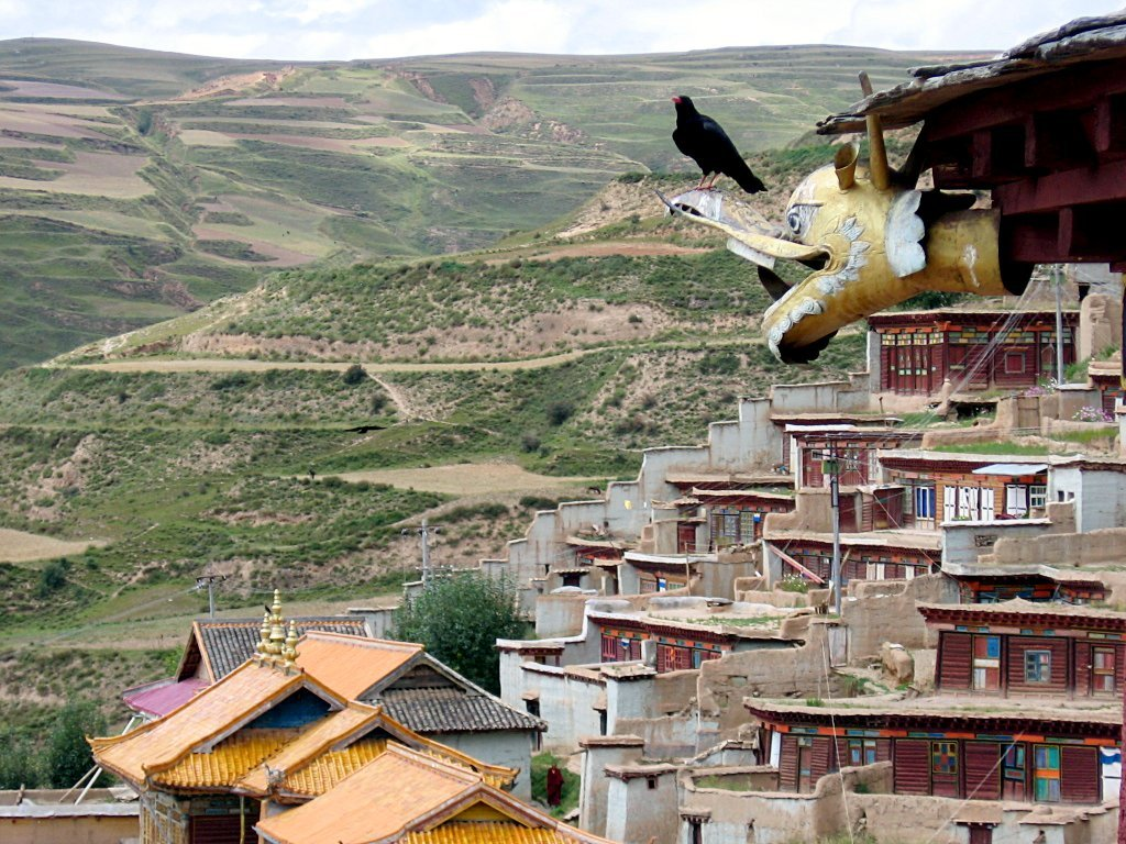 Kandze Gompa, Ganzi Si or Ganzi monastery. Home of more than 500 Gelupka monks. Was built on 17th century.